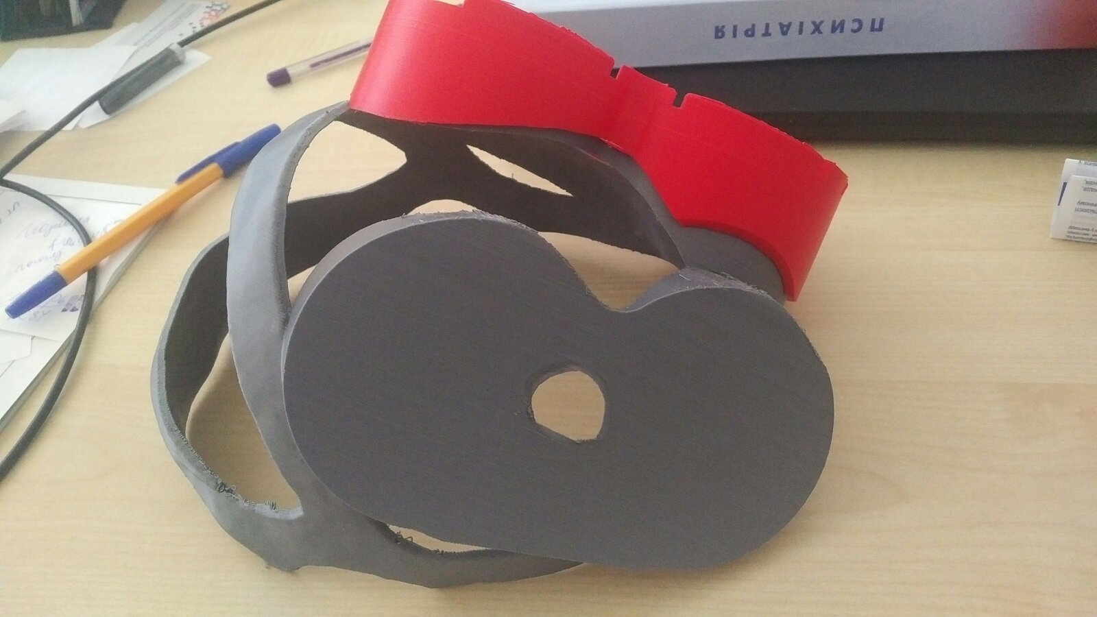 3d printed TMS guide based on MRI data designed to hold Magventure coil MCF-B65 for both frontal lobes